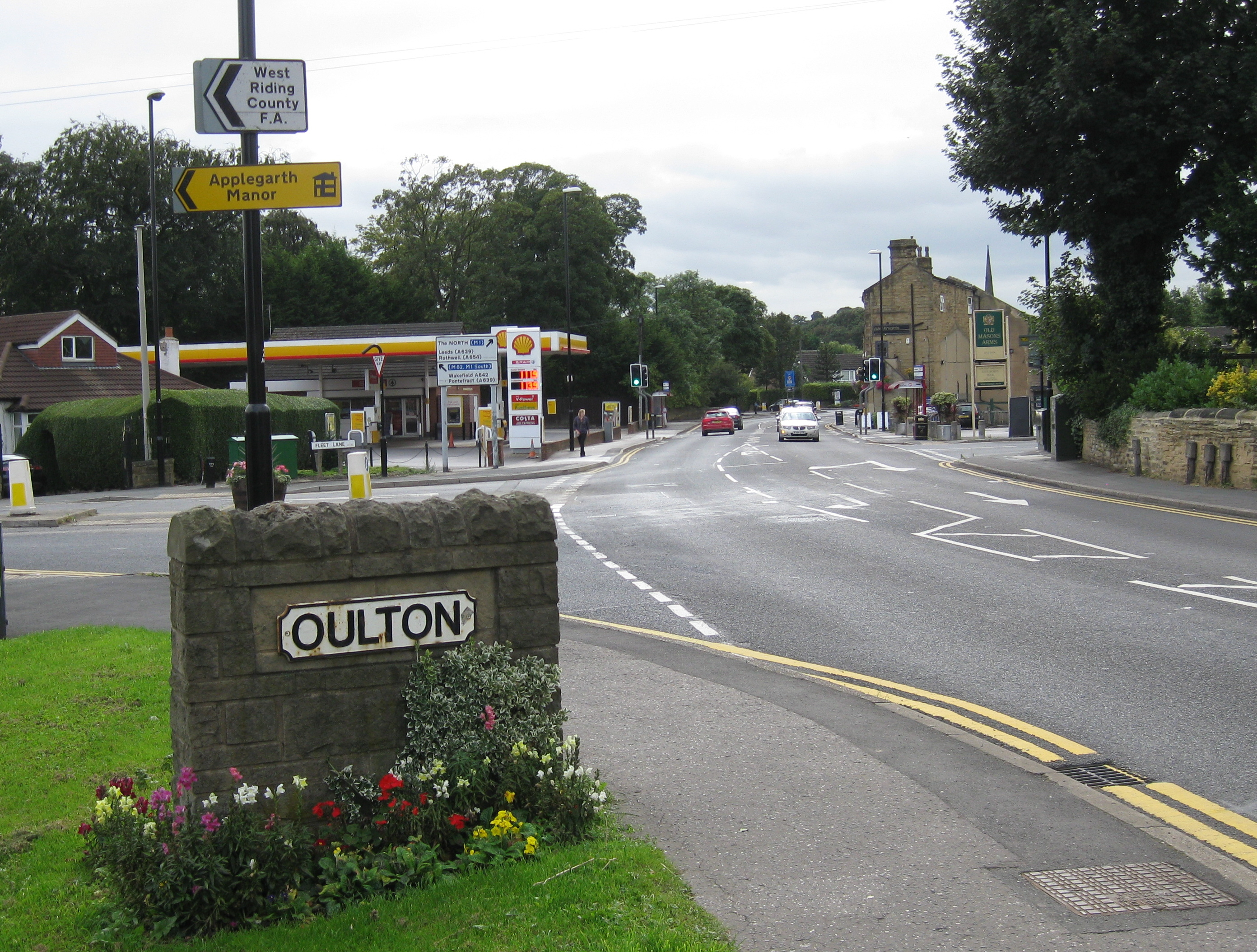 Oulton name sign on the Aberford Road A639, Oulton, West Yorkshire. Shell filling station behind to left, Masons Arms to right.